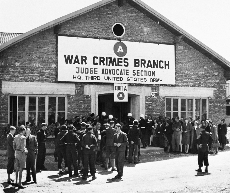 Spectators and U.S. Army military police wait outside of the building where 74 SS men will be sentenced for their roles in perpetrating the Malmedy atrocity.